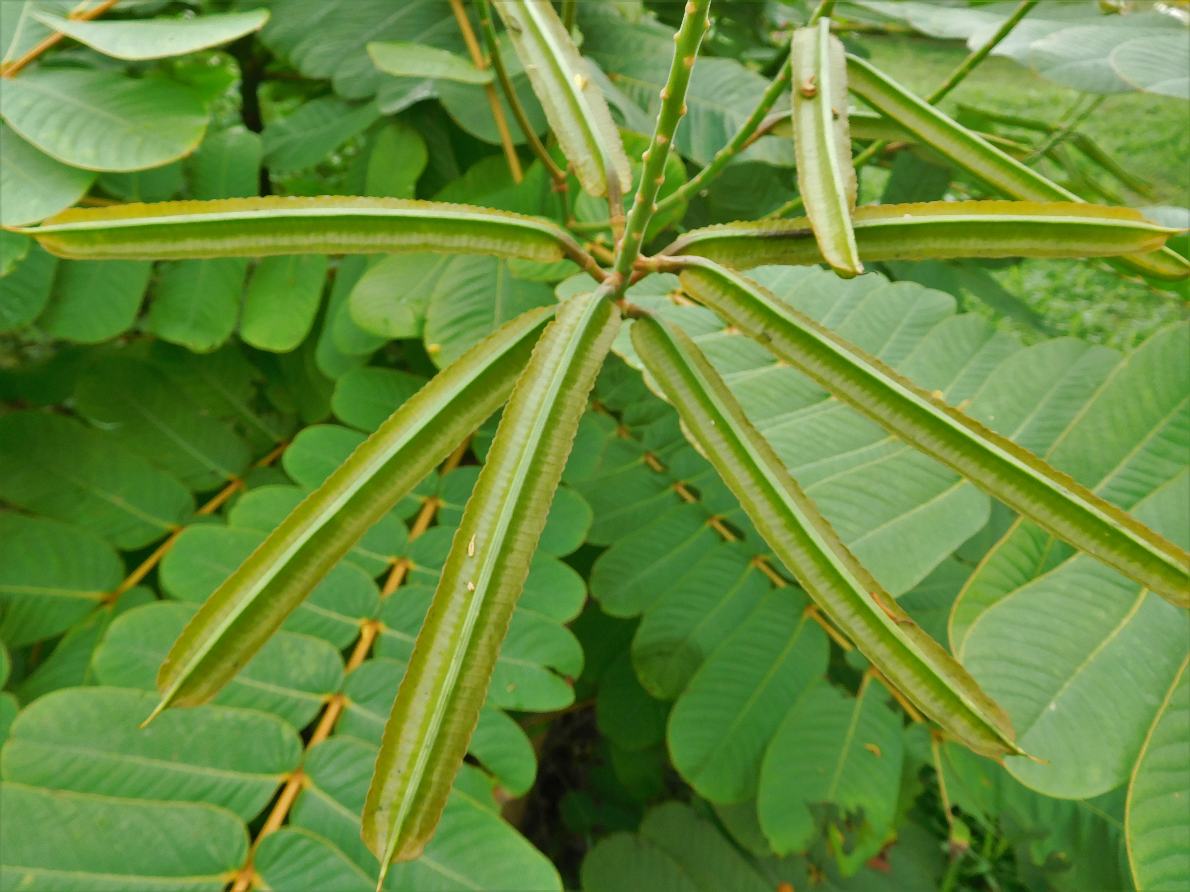 Candle bush